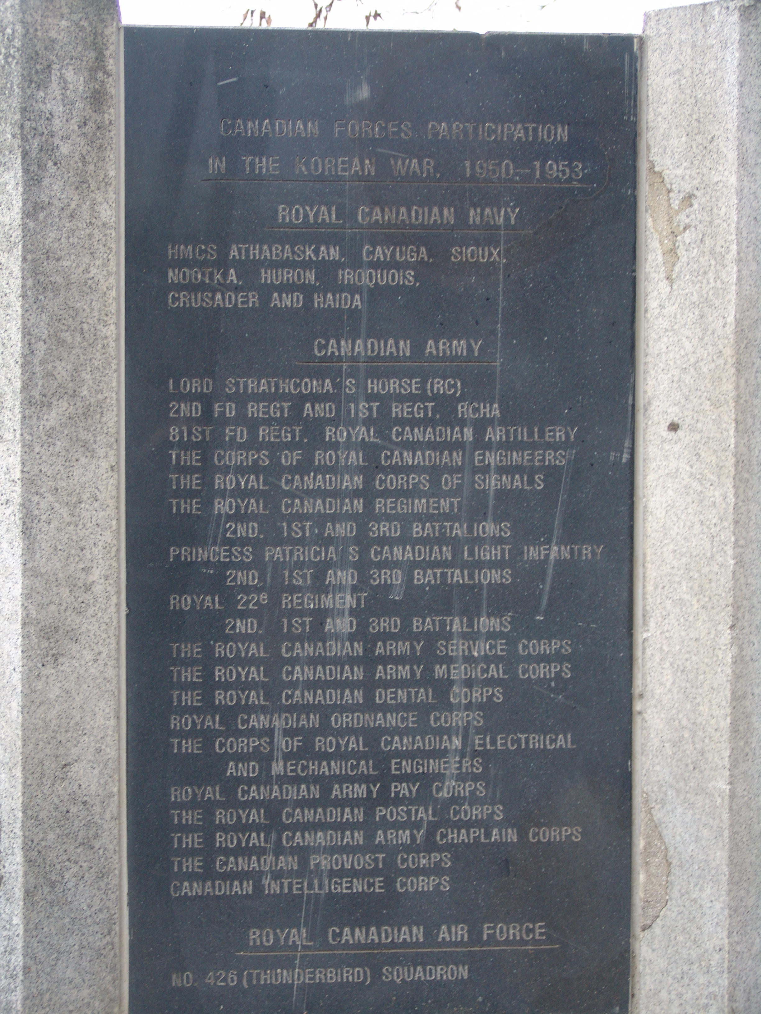 The left panel of the second monument to the Canadian contribution during the Korean War at the Gapyeong Canada Monument. I took the picture.